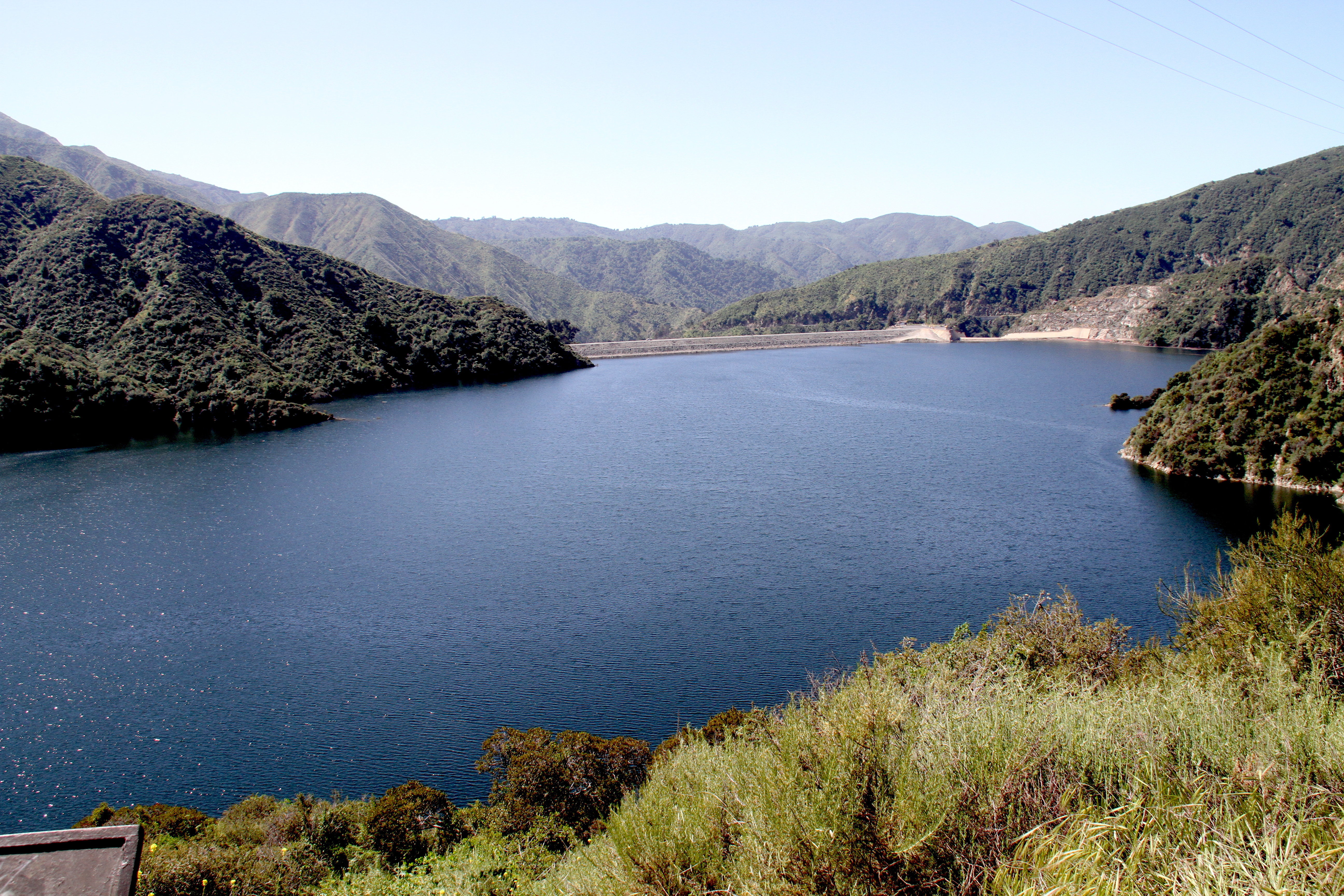 View of the San Gabriel Dam and Reservoir from the north overlook